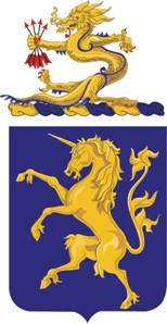 This coat of arms was originally approved for the United States 6th Cavalry Regiment on 3 March 1921, amended with the motto on 04 August 1922 and again to revise the symbolism on 27 June 1960. It was redesignated for the 6th Cavalry Reconnaissance Squadron, Mechanized on 24 July 1944, for the 6th Constabulary Squadron on 18 December 1946, for the 6th Armored Cavalry Regiment on 17 March 1949, and for the 6th Cavalry Regiment on 9 September 1974. Blazon Shield: Azure, a unicorn rampant Or. Crest: On a wreath of the colors Or and Azure an imperial Chinese dragon rampant Or lined Azure, grasping in its dexter claw four arrows Sable, armed and feathered Gules. Motto: "DUCIT AMOR PATRIAE" (led by love of country). Symbolism Shield: The Regiment took part in the eastern campaigns of the Civil War, its outstanding feats being at Williamsburg, Virginia, 1862, when it assaulted intrenched works, and at Fairfield, Pennsylvania, 1863. At Fairfield the unit engaged two enemy brigades of cavalry, completely neutralizing them and saving the supply trains of the Army, but in the process was literally cut to pieces. This is symbolized by the unicorn, held to represent the knightly virtues and, in the rampant position, a symbol of fighting aggressiveness, combined with speed and activity. The shield is blue, the color of the Federal uniform in the Civil War. Crest: The Chinese dragon represents the Regiment’s entrance into the Forbidden City in Peking in 1900. The arrows symbolize service in the Indian Wars.